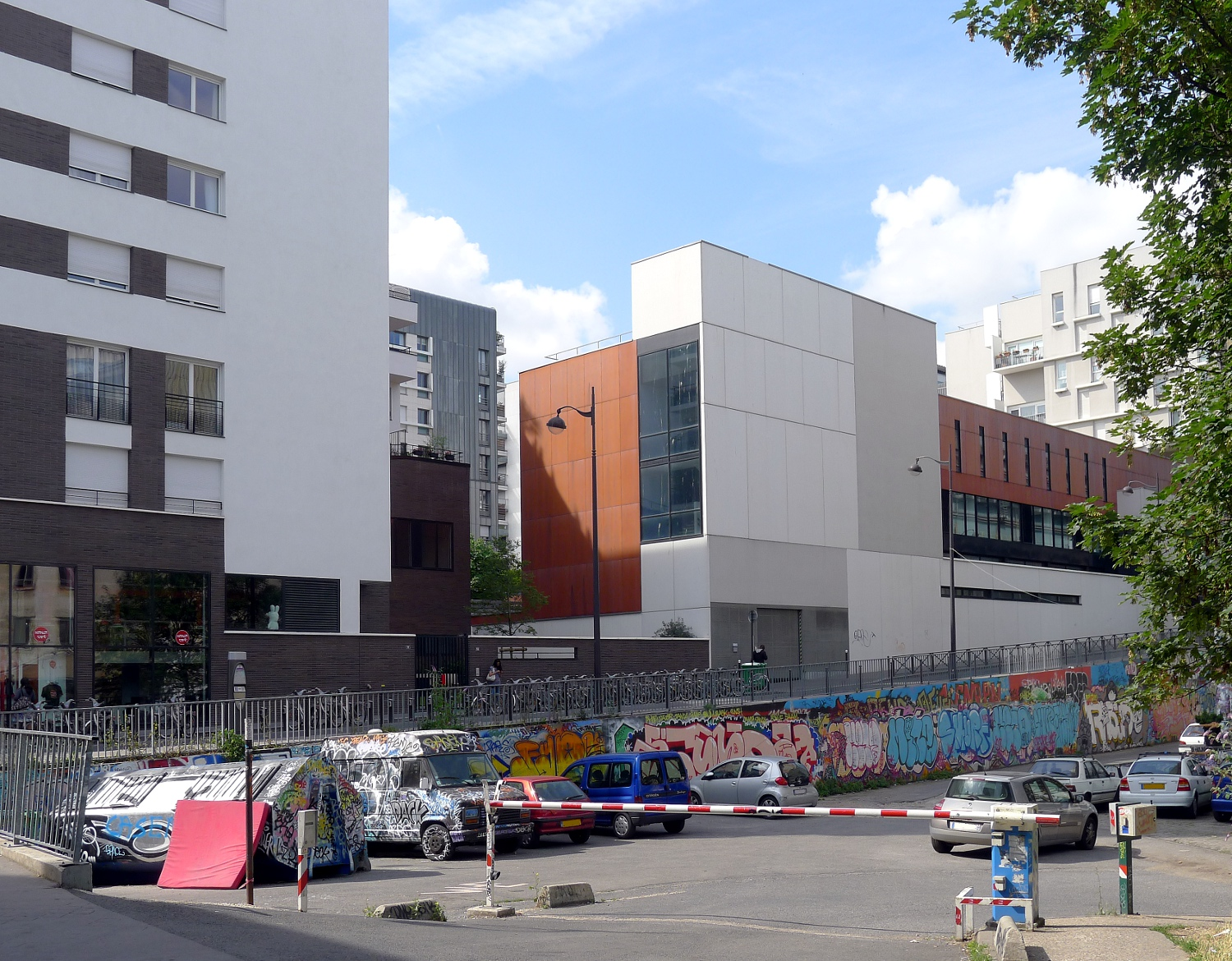 Primo-Levi street - Paris